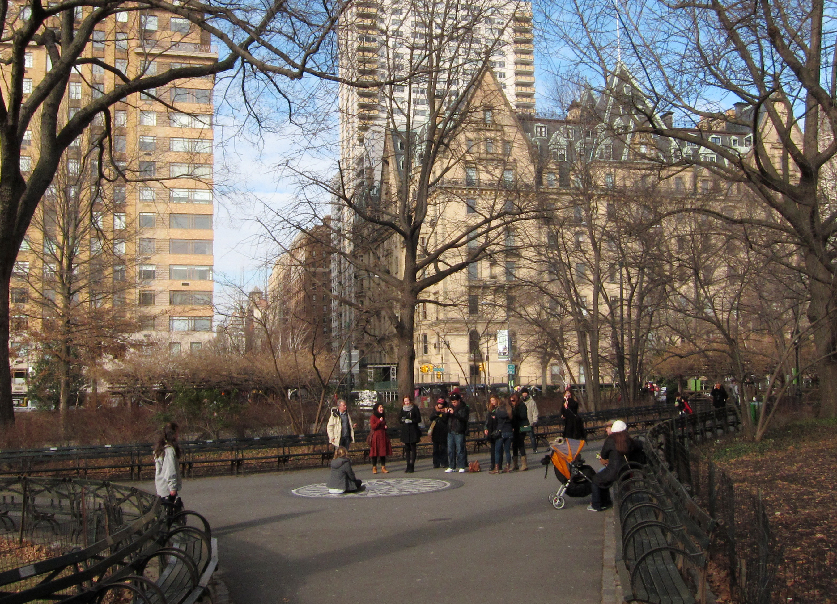 Strawberry Fields in the Central Park with The Dakota behind